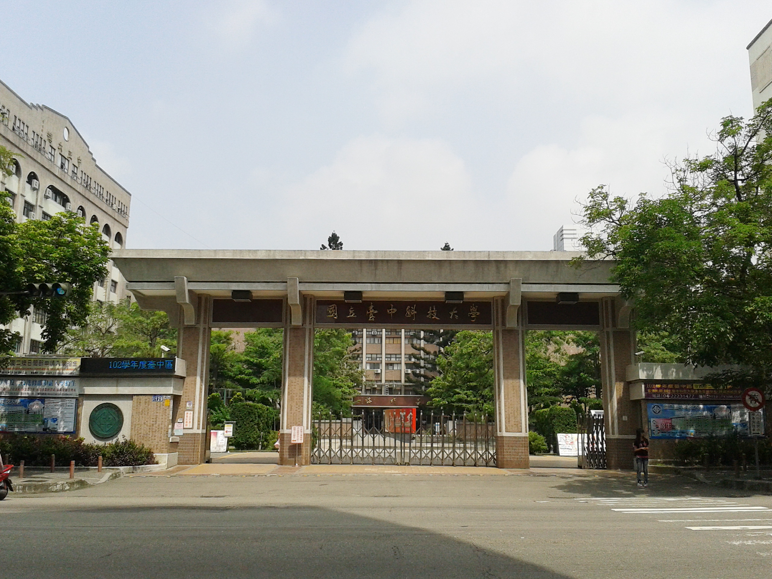 National Taichung University of Science and Technology中文（台灣）: 國立臺中科技大學。